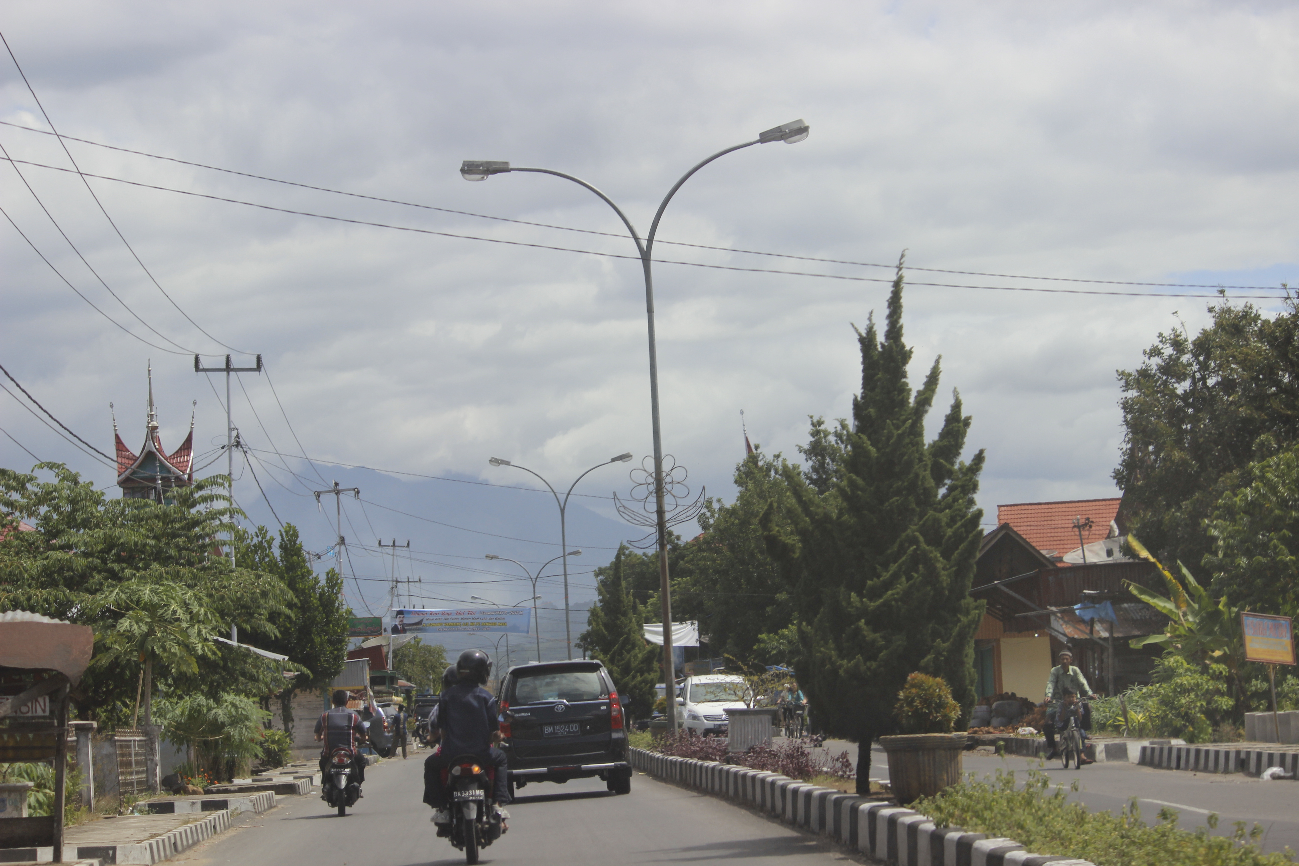 Streets of Payakumbuh city in West Sumatra.